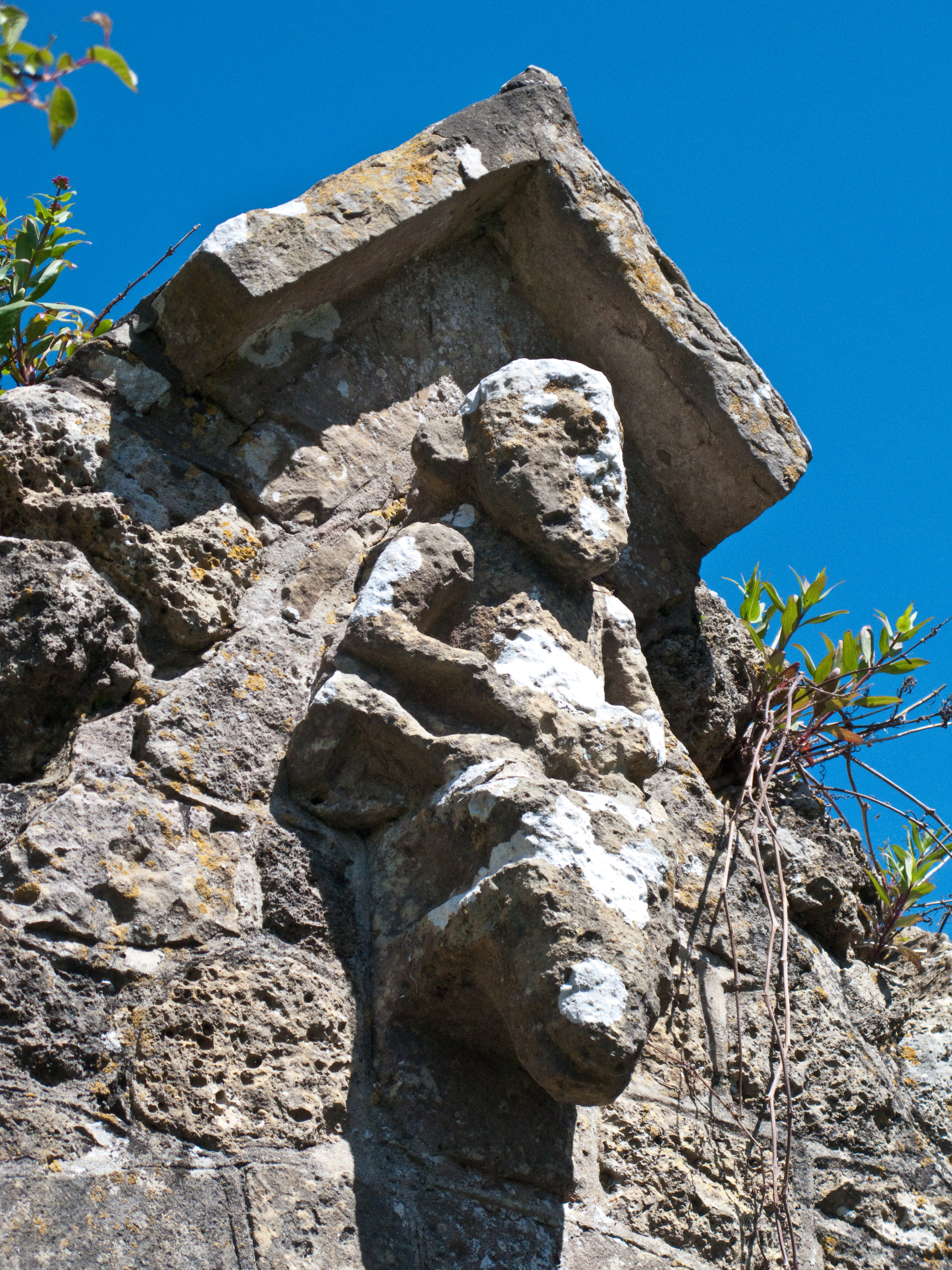 Sheela na gig on the churchyard wall of Holy Cross Church, Binstead, Ryde, Isle of Wight